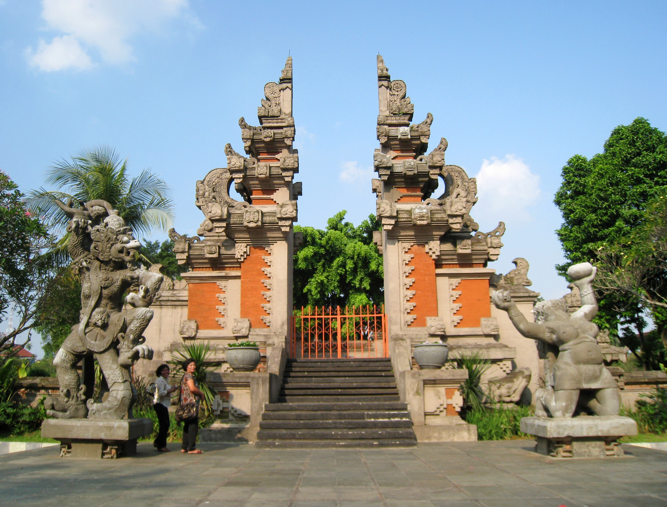 The Balinese Candi Bentar (split gate) of Indonesia Museum, Taman Mini Indonesia Indah, Jakarta.